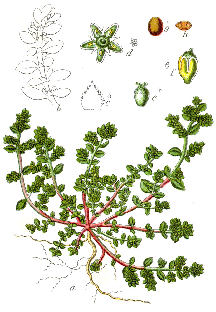 Herniaria glabra var. glabra, syn. Paronychia herniaria E.H.L.Krause Original Caption Echtes Bruchkraut, Paronychia herniaria